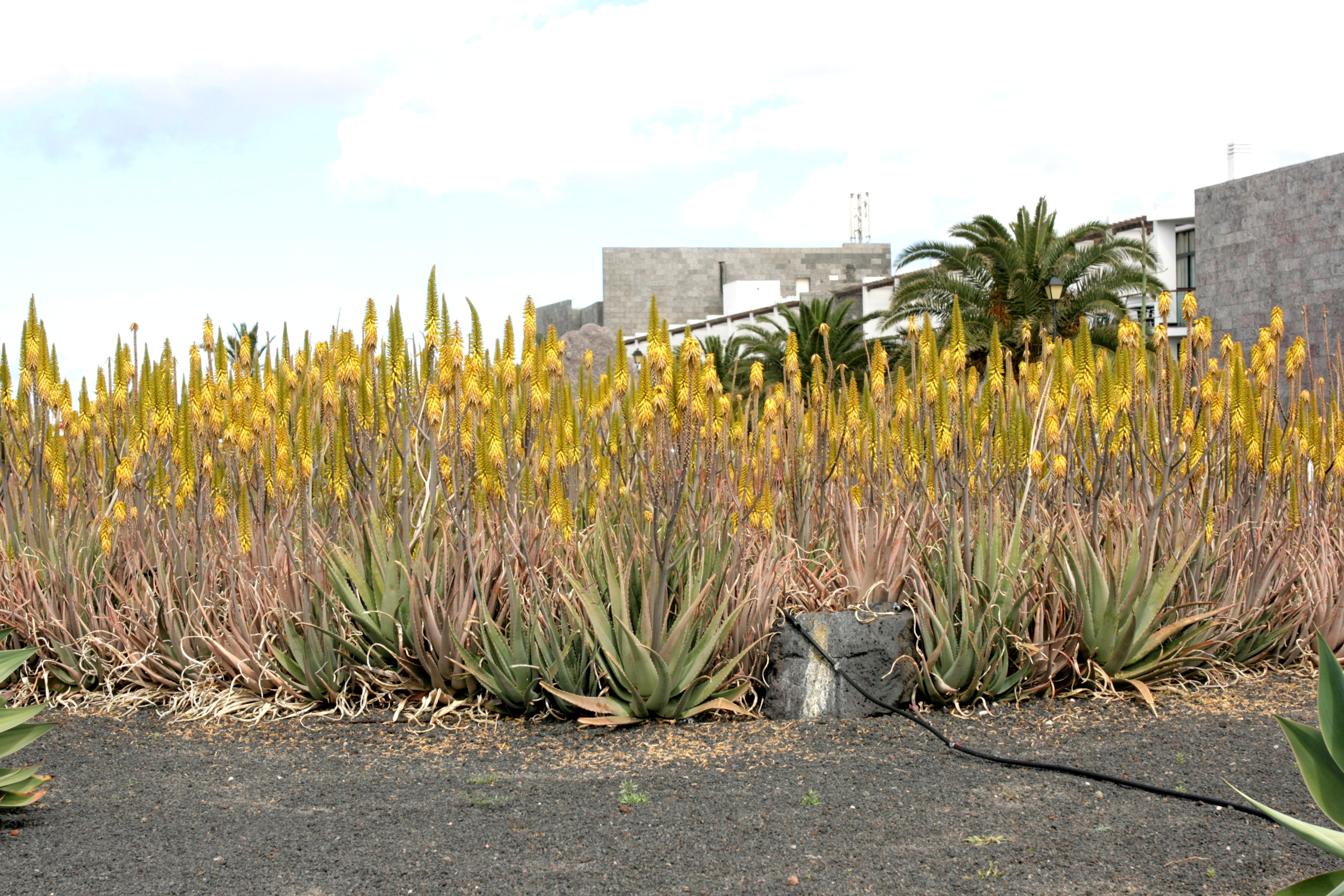 Aloe vera grown at Calle Las Palmas in Playa Blanca, Yaiza, Lanzarote, Canary Islands